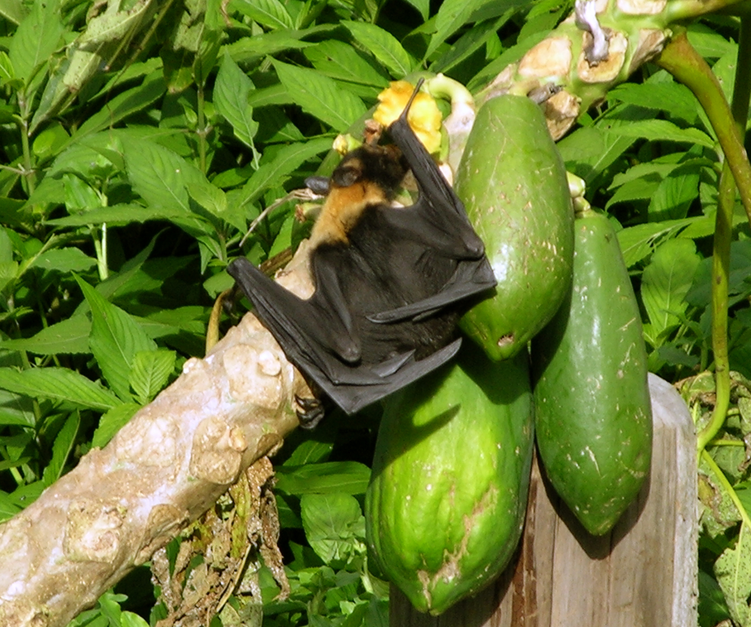 CSIRO scientists in Far North Queensland sought help from the public in attempting to locate tens of thousands of spectacled flying foxes that took flight in the aftermath of Cyclone Larry. They are investigating how flying foxes have responded to the habitat disturbance caused by the cyclone in March 2006. A large proportion of these animals relocate in winter and spring, but in 2006, they left up to three months earlier than usual, about a week after Cyclone Larry. The bats normally roost by day and feed at night, but after Cyclone Larry they were seen in flight and feeding in the afternoon daylight, which suggests that these typically nocturnal animals took greater risks to get sufficient food.